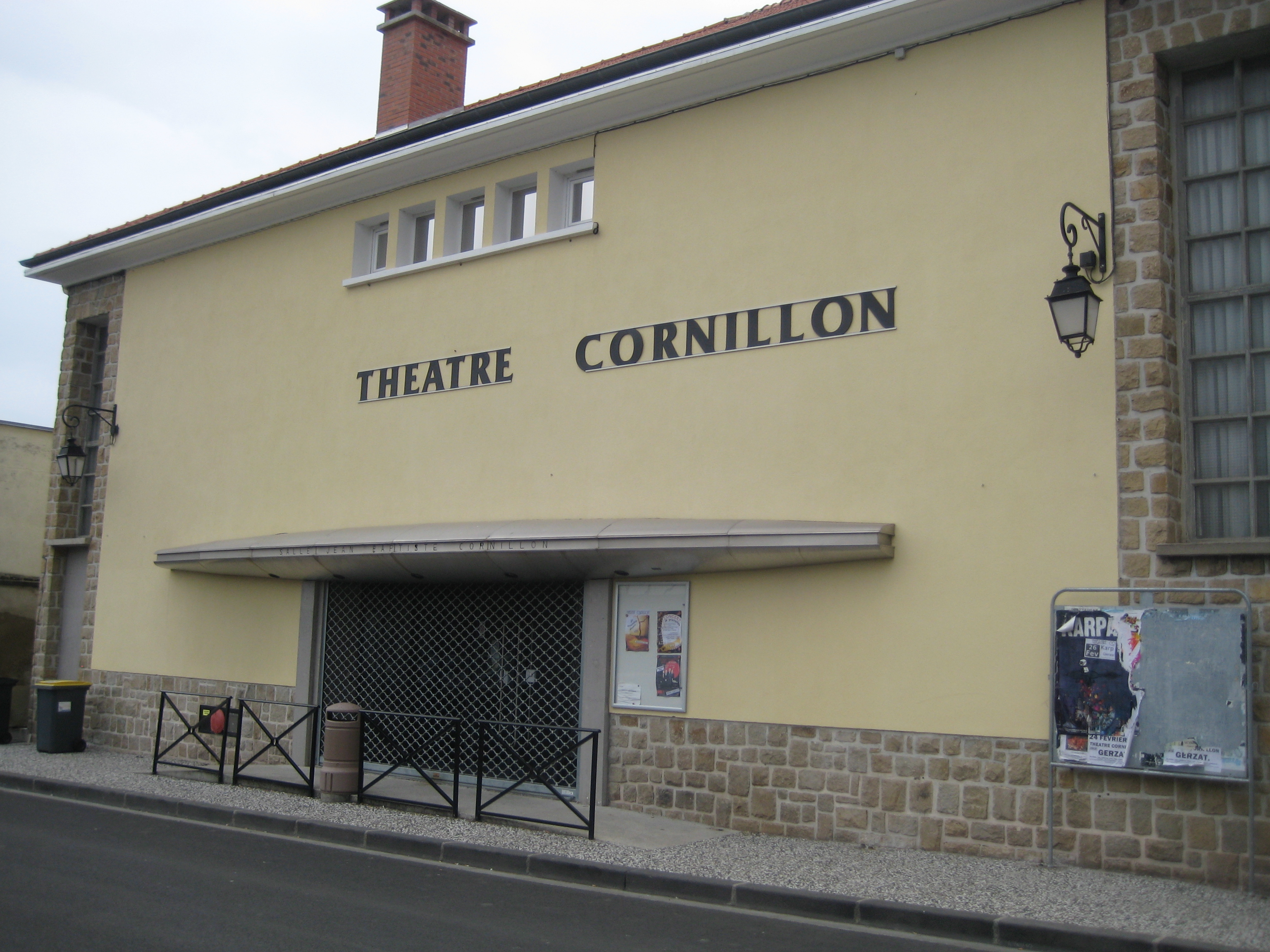 Cornillon Theater, Gerzat